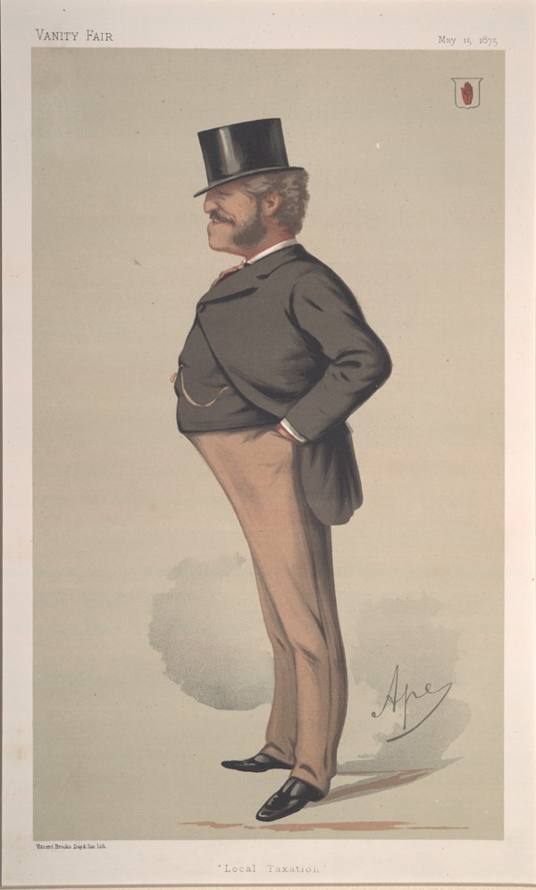 Statesmen No.202: Caricature of Sir Massey Lopes Bt MP. Caption reads: "Local Taxation"